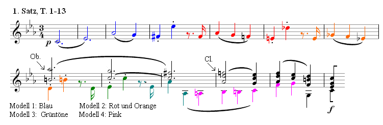 First 13 bars from the first set of W.A. Mozarts Pianoconcerto KV 491